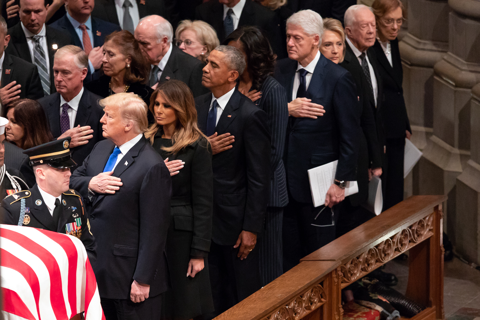 President Donald J. Trump and First Lady Melania Trump, joined by former President Barack Obama and First Lady Michelle Obama, former President Bill Clinton and First Lady Hillary Clinton and former President Jimmy Carter and First Lady Rosalynn Carter, watch as the casket of former President George H. W. Bush arrives to the funeral service Wednesday, Dec. 5, 2018, at the Washington National Cathedral in Washington, D.C. (Official White House Photo by Andrea Hanks)